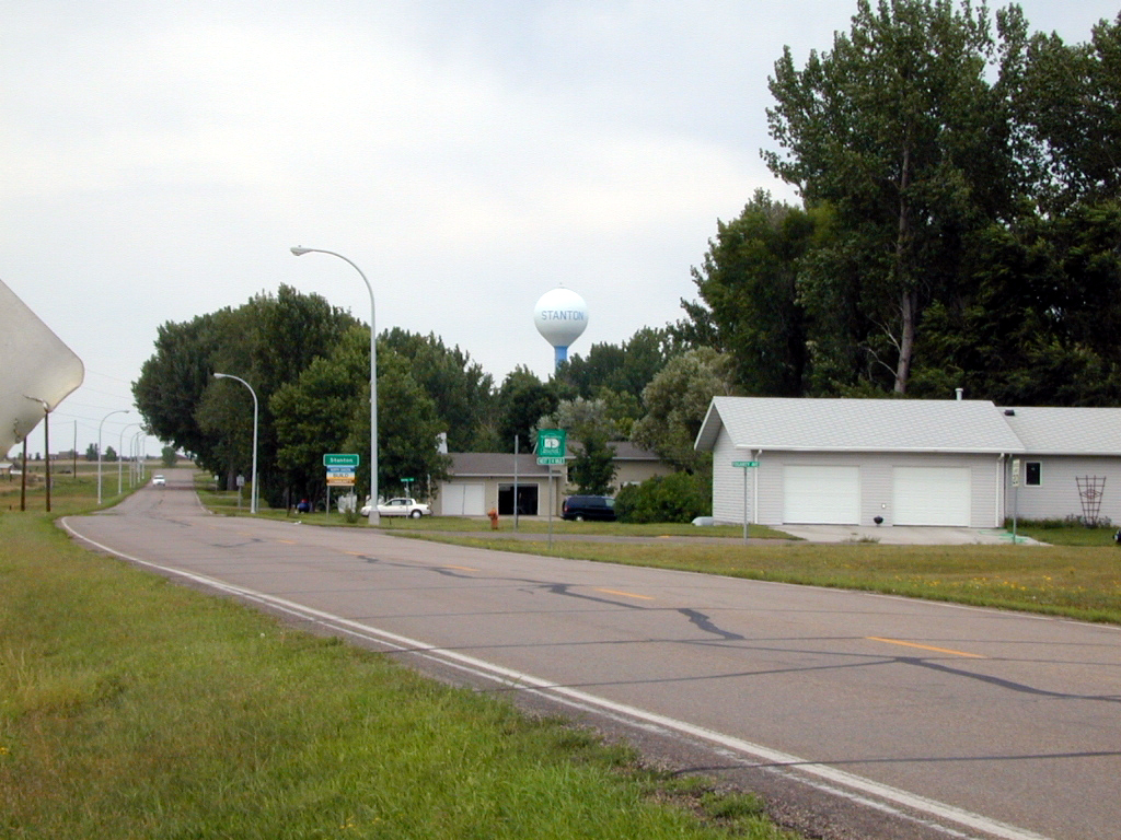 Stanton, ND Looking North along ND Route 31, South of the Stanton, ND city limits